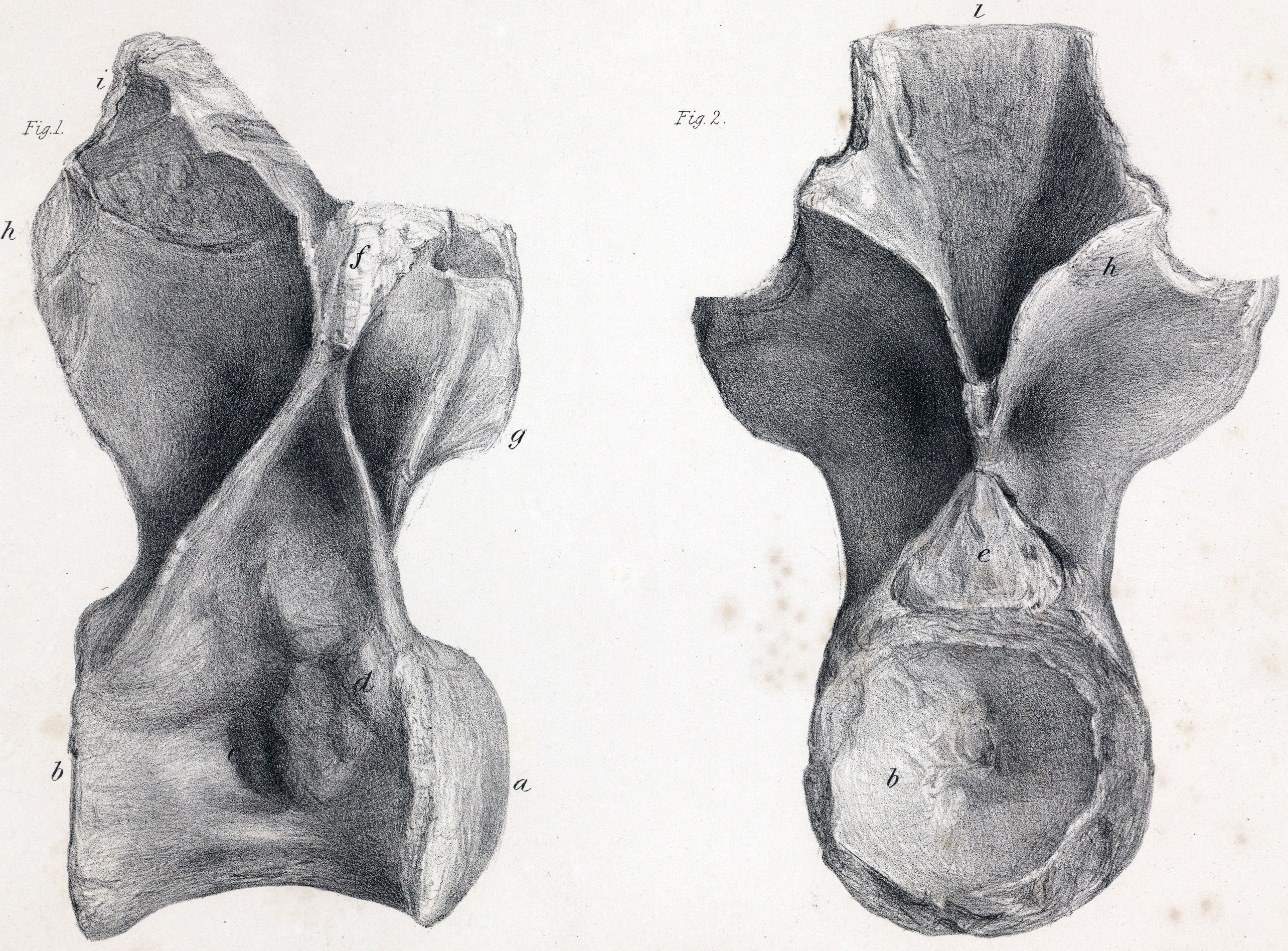 Crocodilia.—Streptospondylus Cuvieri. Fig. 1. Side view of dorsal vertebra. Fig. 2. Hind view of do. This is a type-vertebra of the "opisthocœlian" Crocodiles. From the Lias of Whitby.